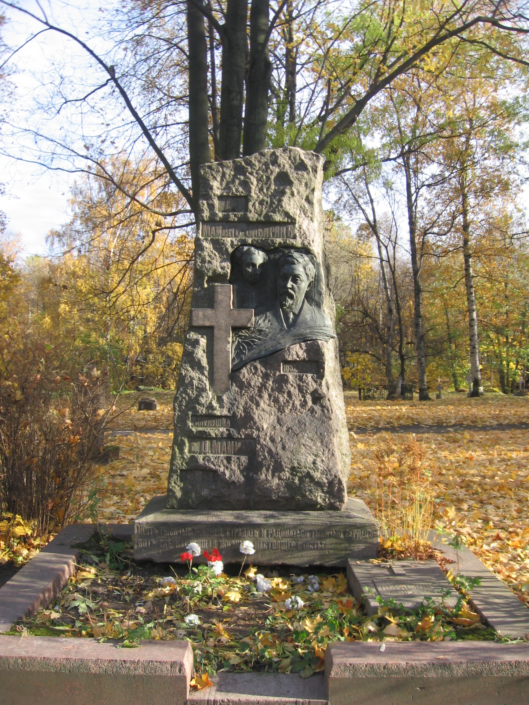 Grave of Dmitry Mamin-Sibiryak